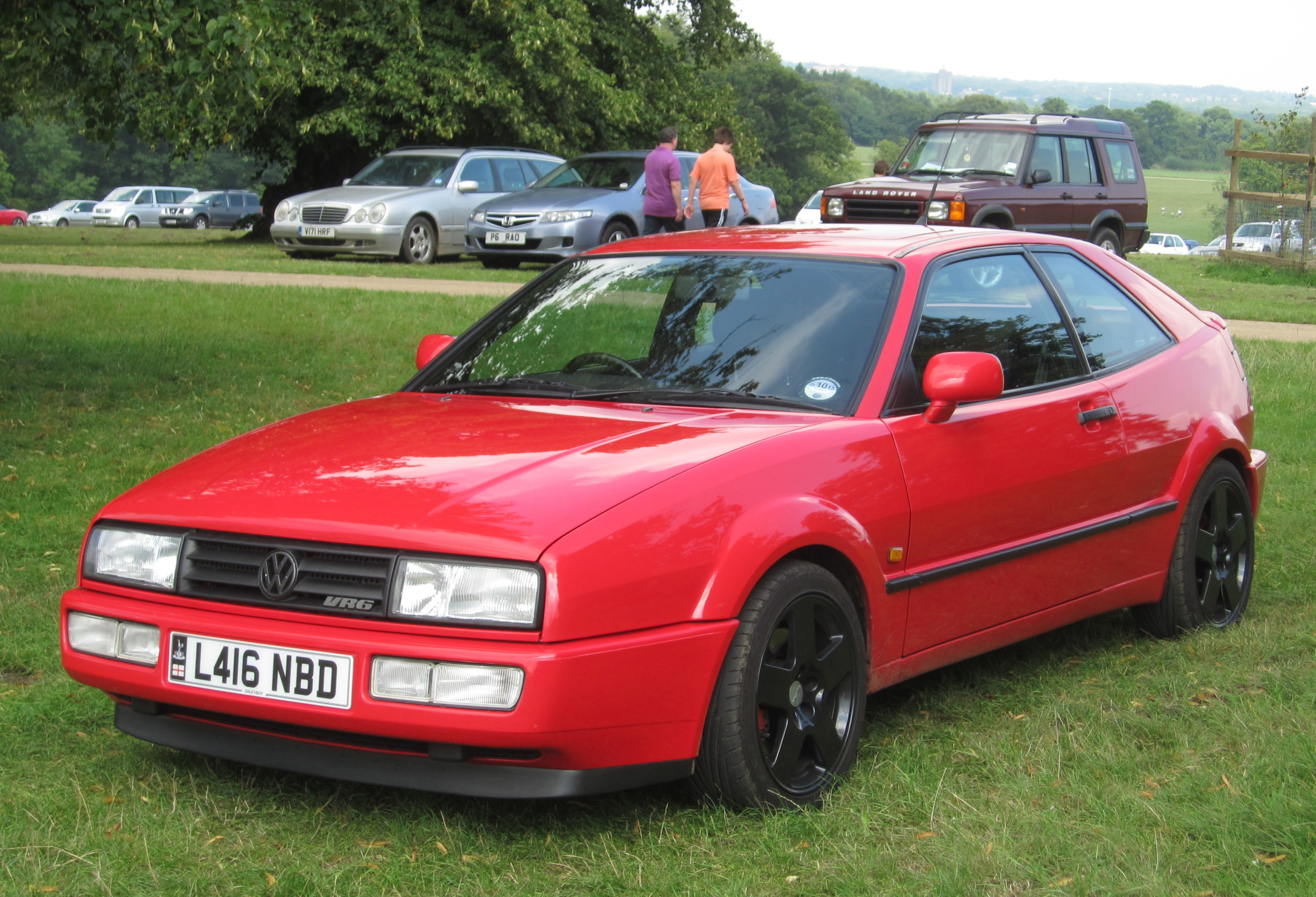 Volkswagen Corrado VR6 (1993)